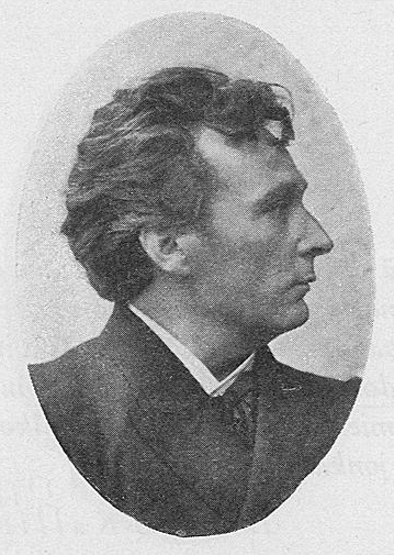 Finnish actor Aapo Pihlajamäki, early 1930s.